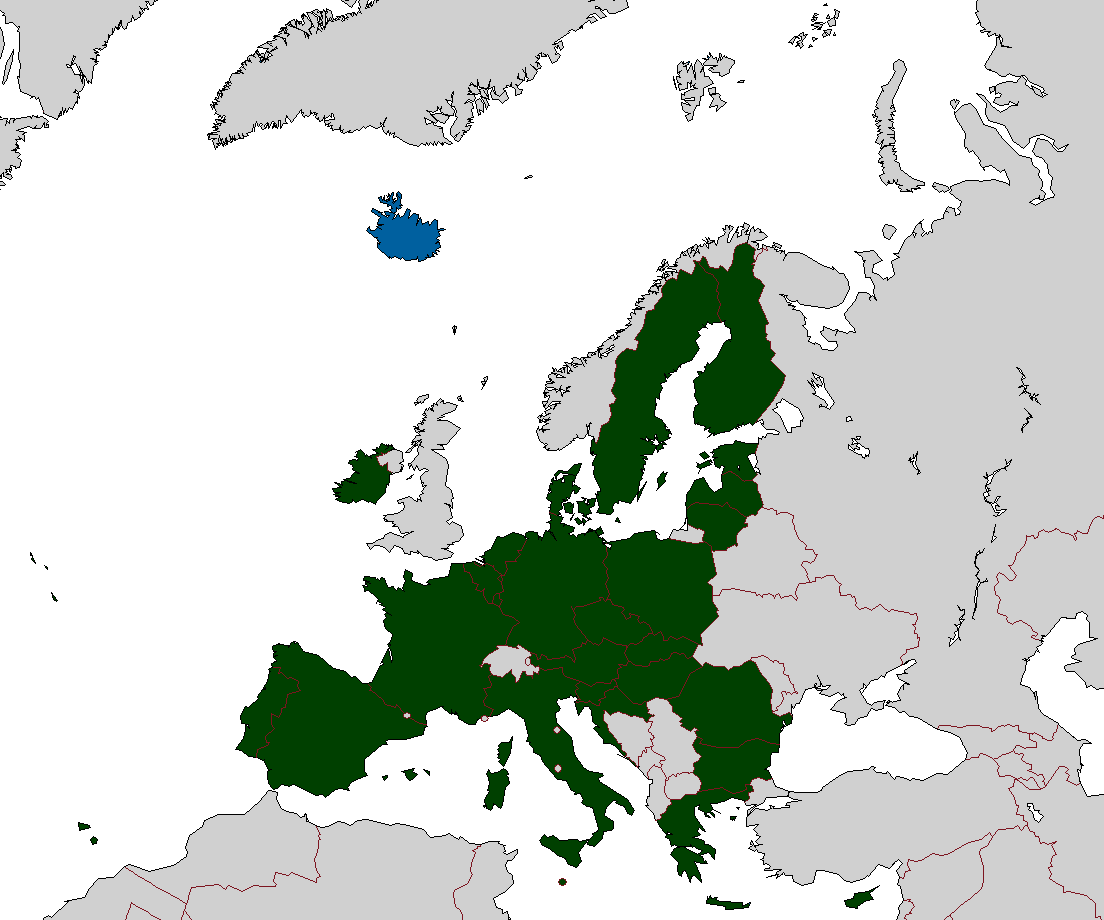 Map of the European Union and Iceland.